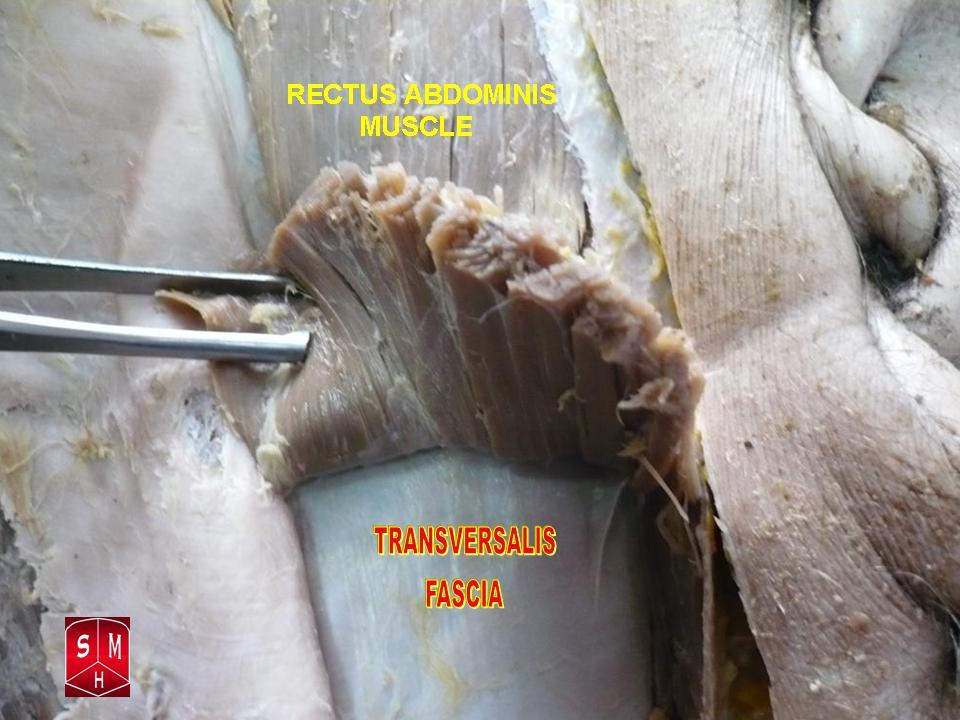 Anatomical preparation